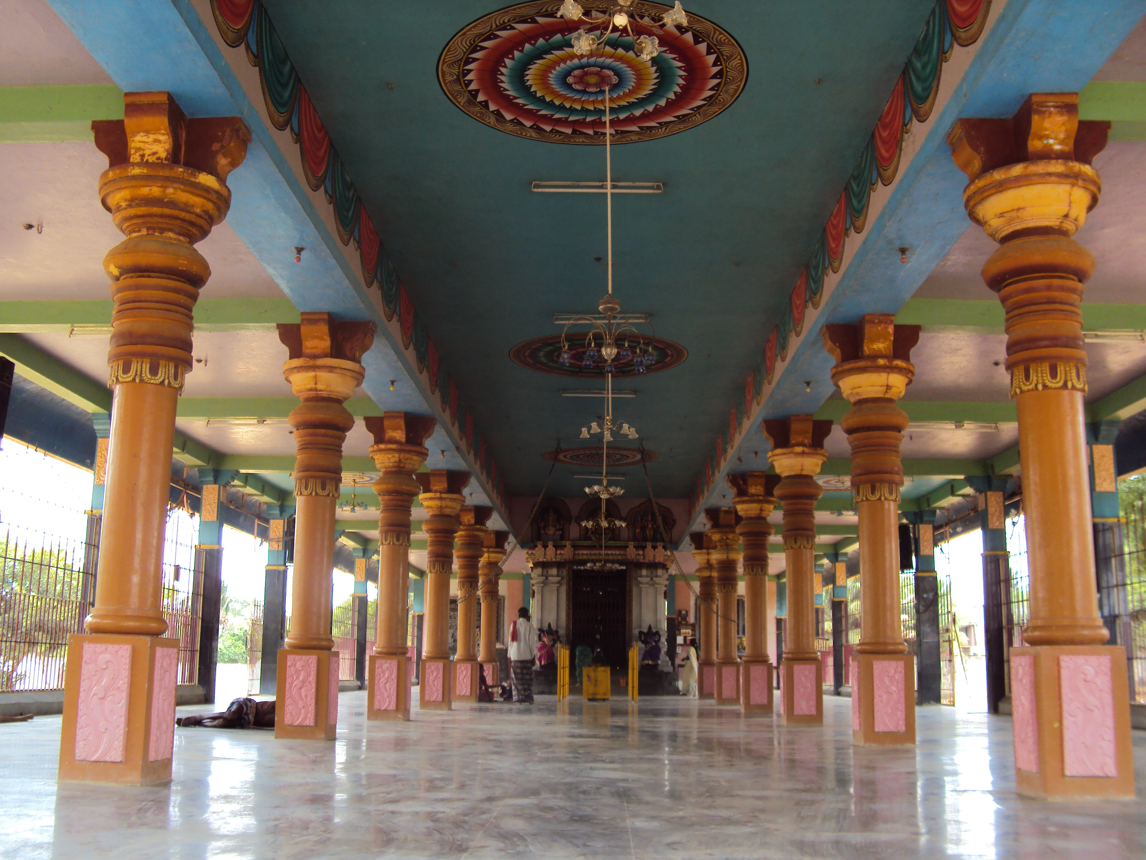 Arulmigu Kuzhanthayi Mariyamman Temple(Inside view),அருள்மிகு குழந்ததாயி மாரியம்மன் கோவில்,உள்ளிக்கோட்டை- உட்புறத்தோற்றம்